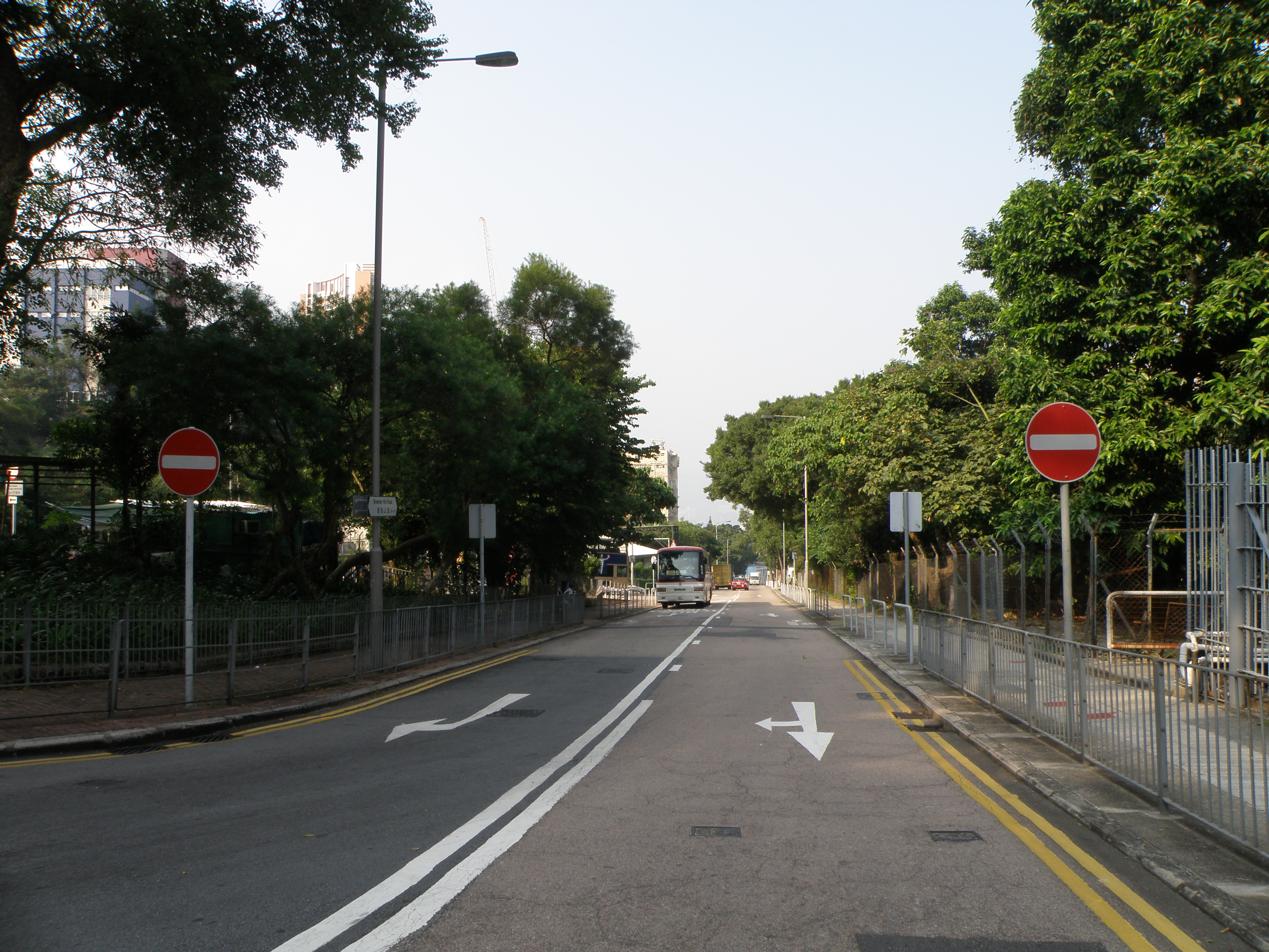 Braemar Hill Road in North Point, Hong Kong.